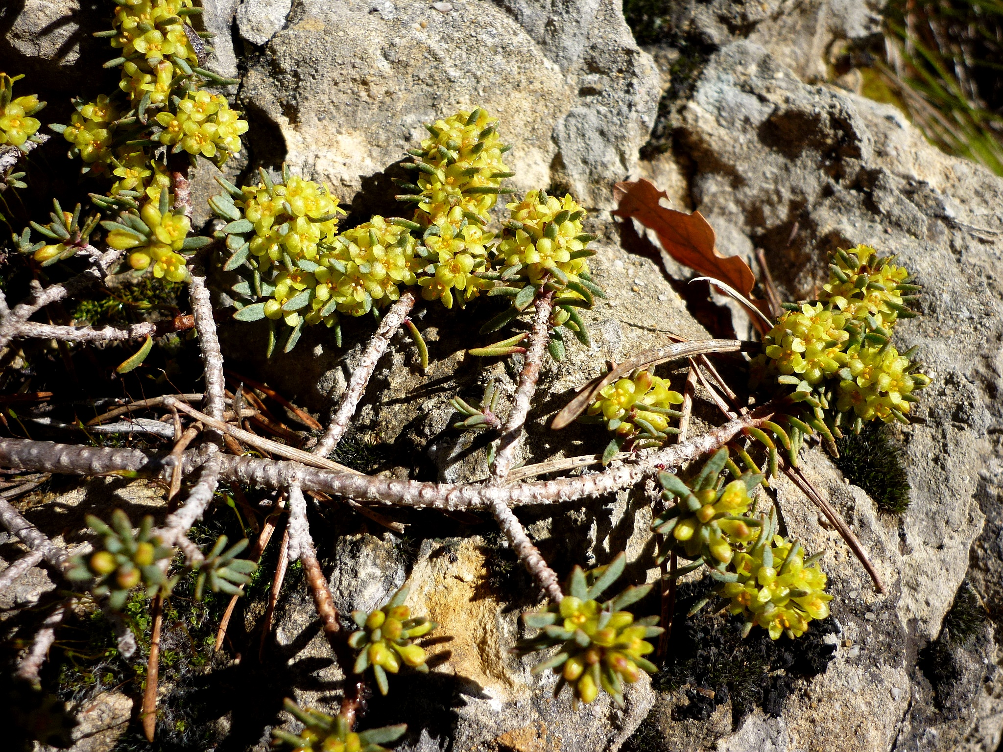 Thymelaea dioica. In Castellar del Riu (Berguedà-Catalunya). To 1.080 m. altitude